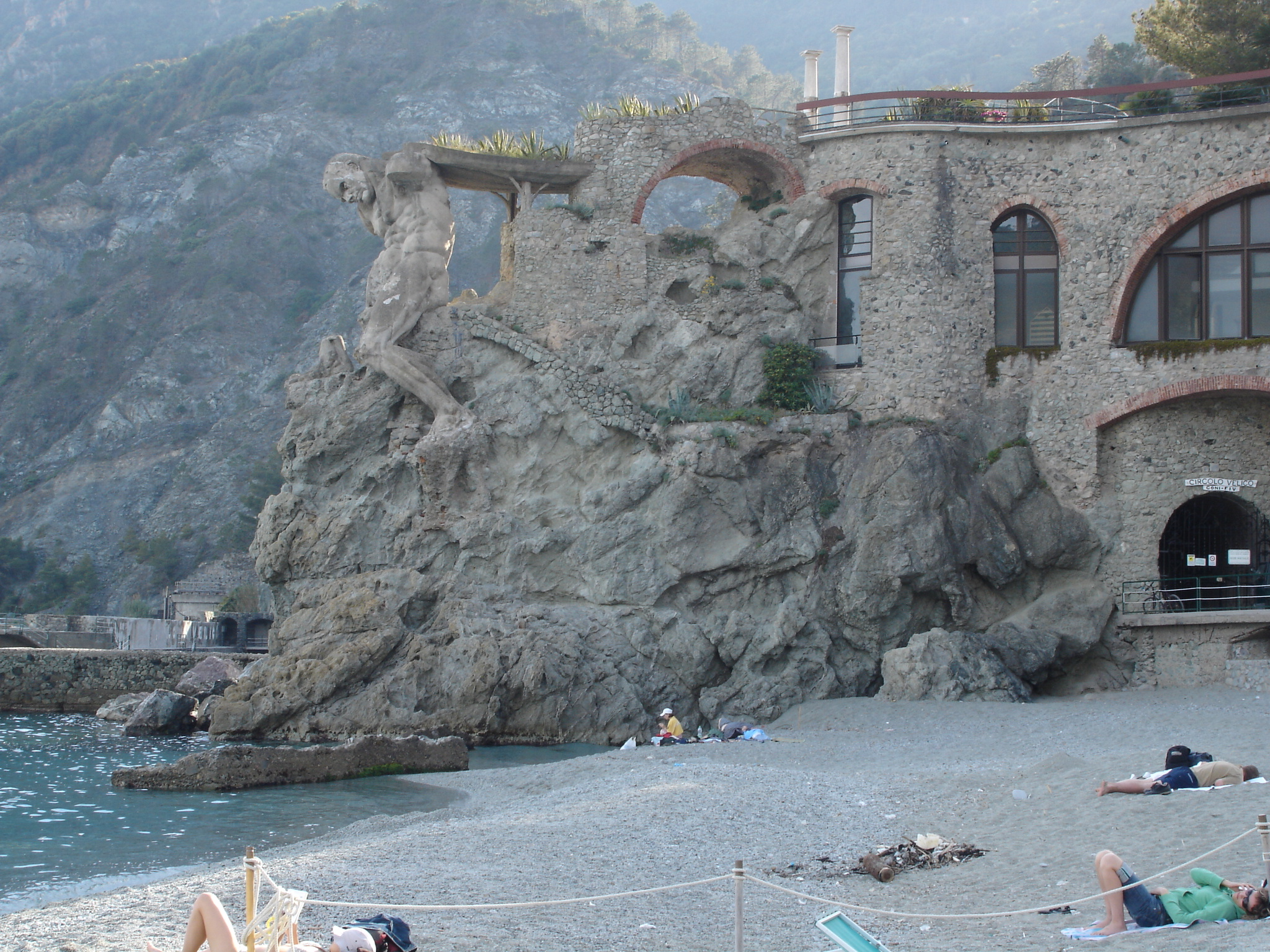 Beach of Monterosso